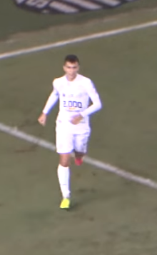 Santos FC player Vitor Bueno celebrating a goal against Sport Recife.